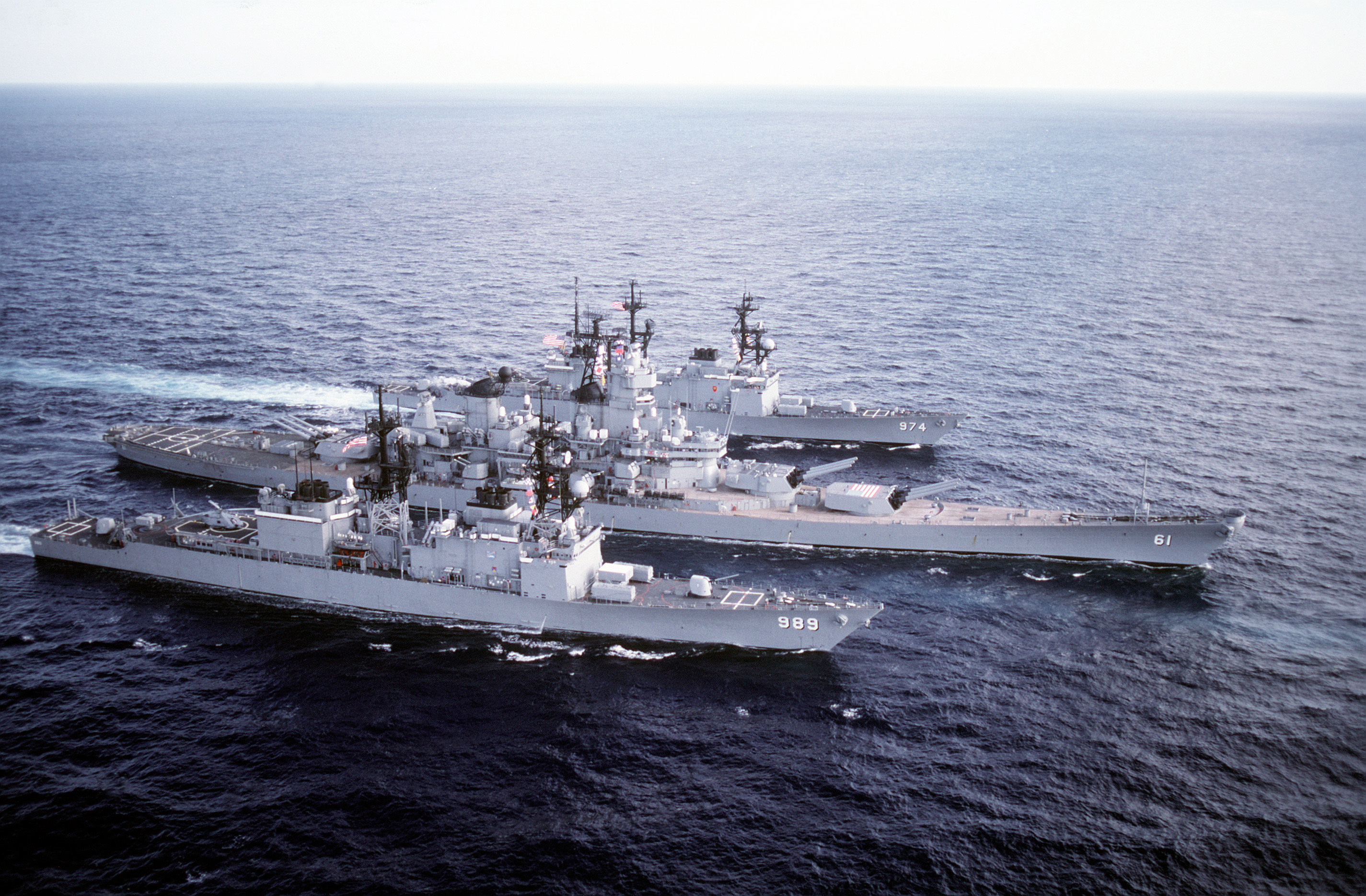 The U.S. Navy destroyer USS Deyo (DD-989), bottom, the battleship USS Iowa (BB-61), center, and the destroyer USS Comte de Grasse (DD-974) underway in the Atlantic Ocean on 14 January 1987.